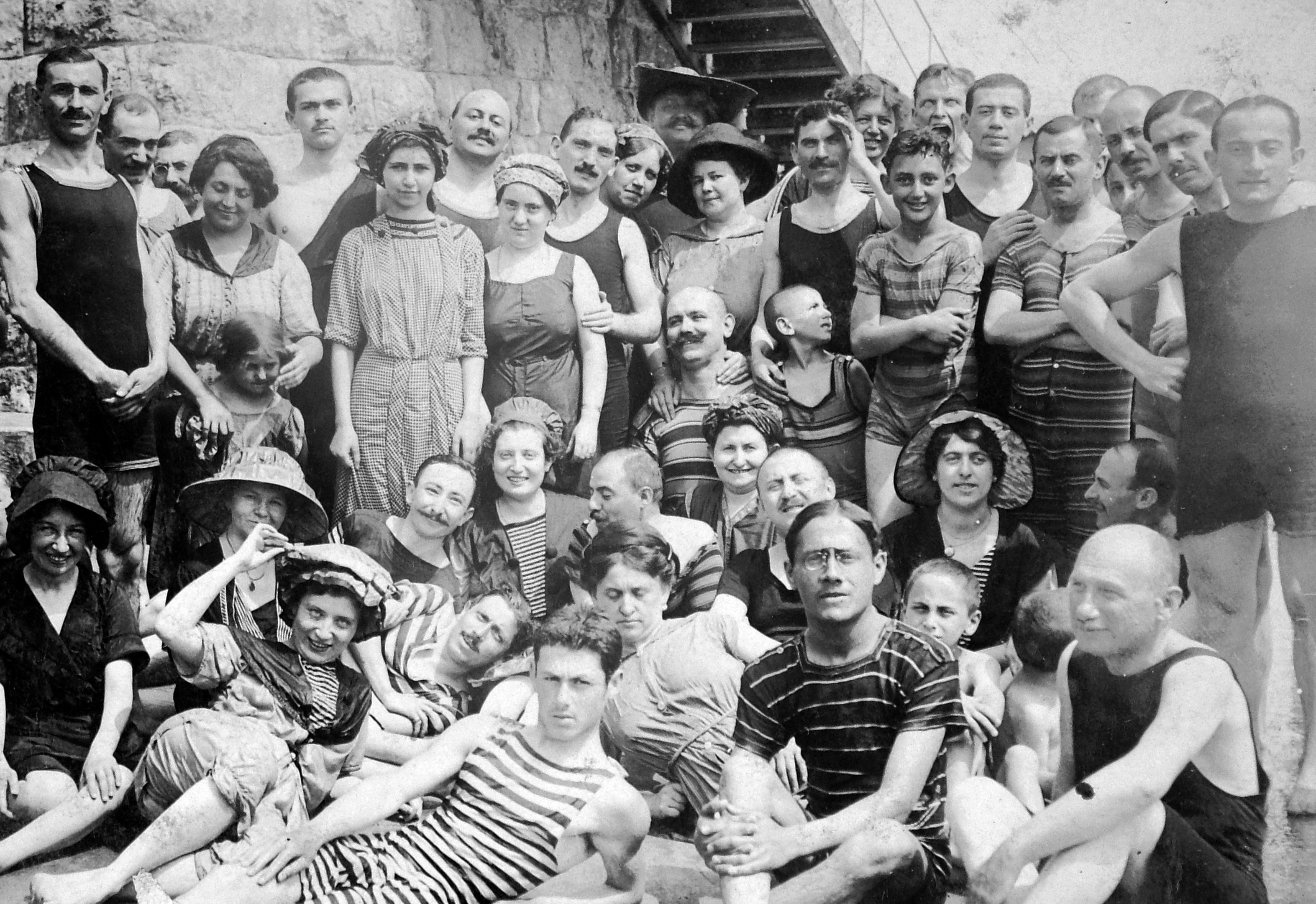 Location: Croatia, Opatija Tags: bathing suit, tableau